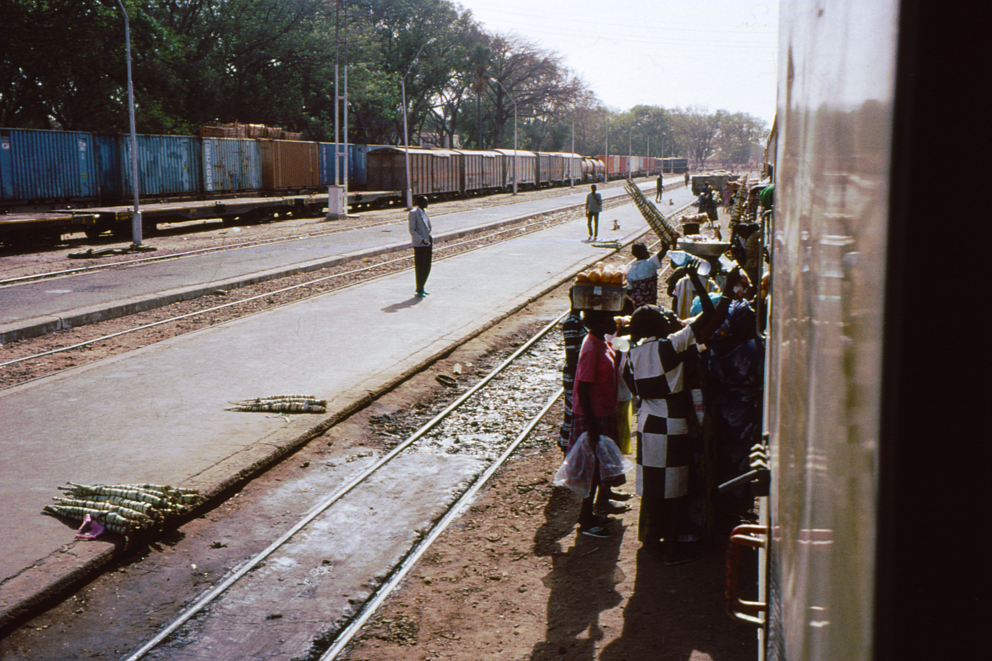 The train from Dakar to Saint-Louis has stopped at an unknown station (probably Thiès).